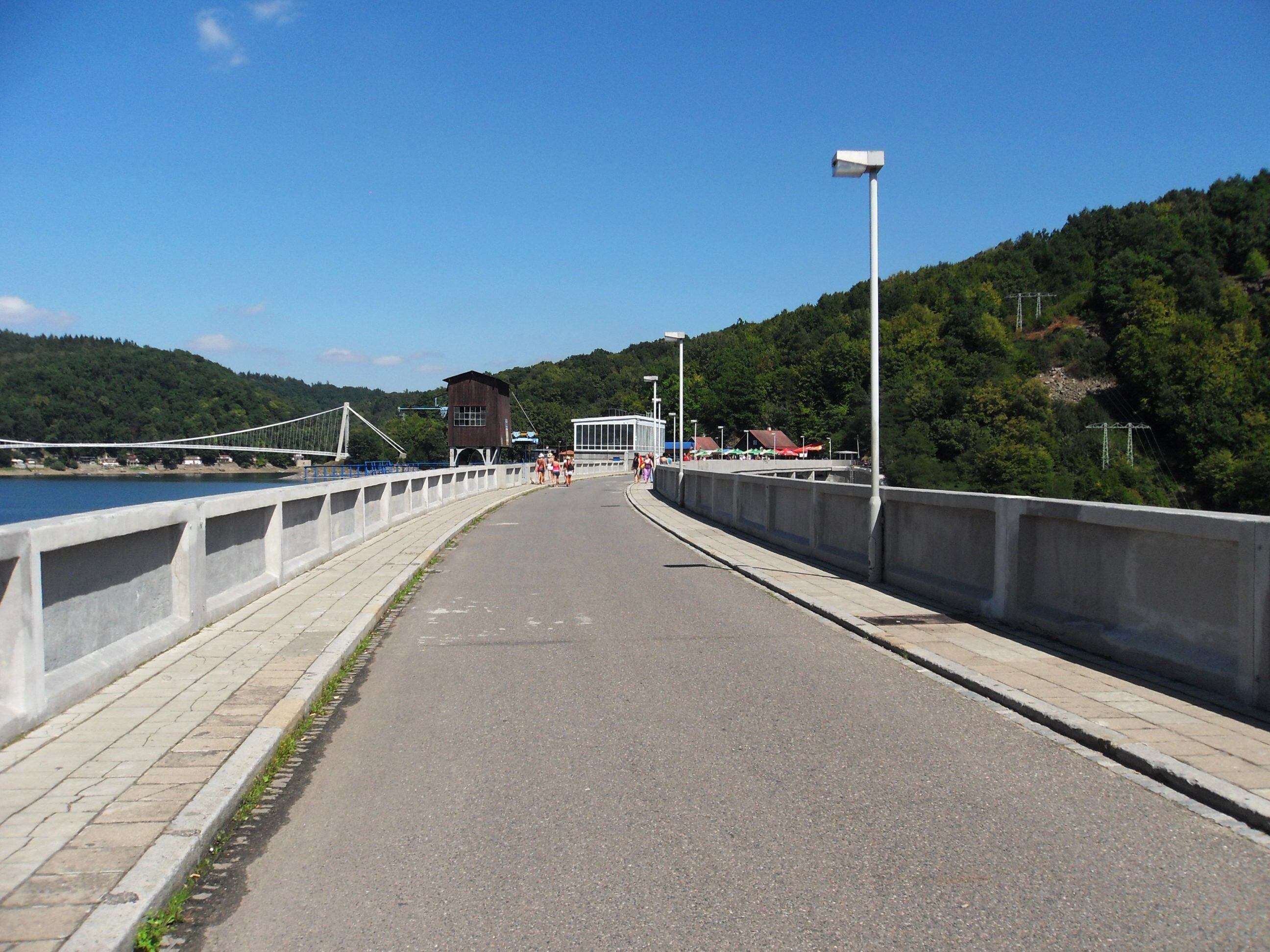 Vranov dam, Vranov nad Dyjí, Znojmo district, Czech Republic